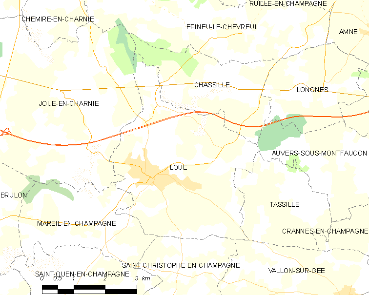 Map of French municipality